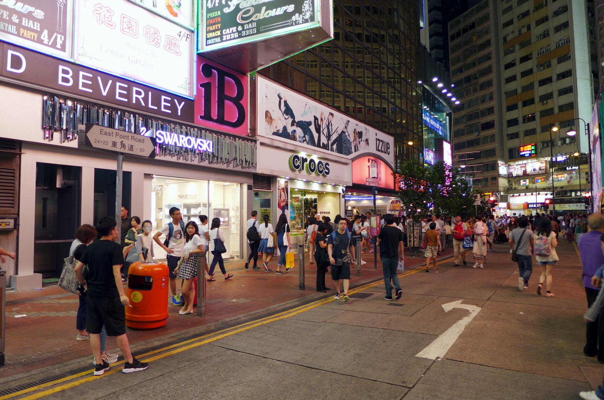 East Point Road